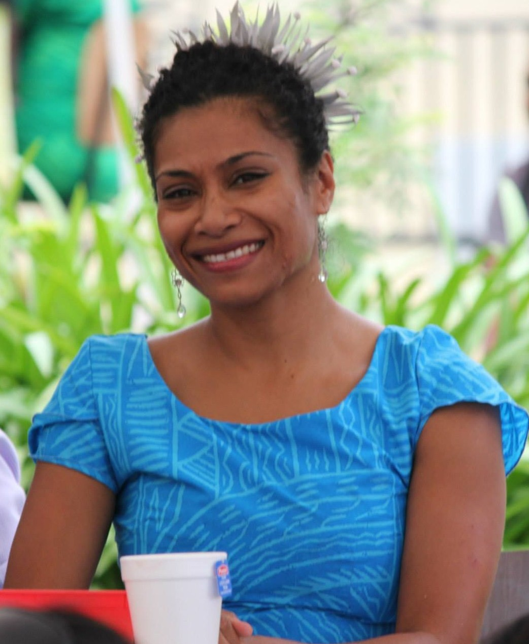 Tabua earlier today at a tea party